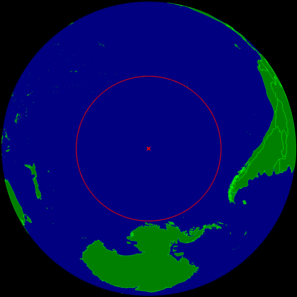 Spherical Earth centered on the oceanic pole of inaccessibility in the Southern Pacific ocean. The circle indicates the distance to the nearest landmasses (Antarctica, Easter Island and Ducie Island). The circle is deliberately a bit too small to ensure that the islands are still visible.